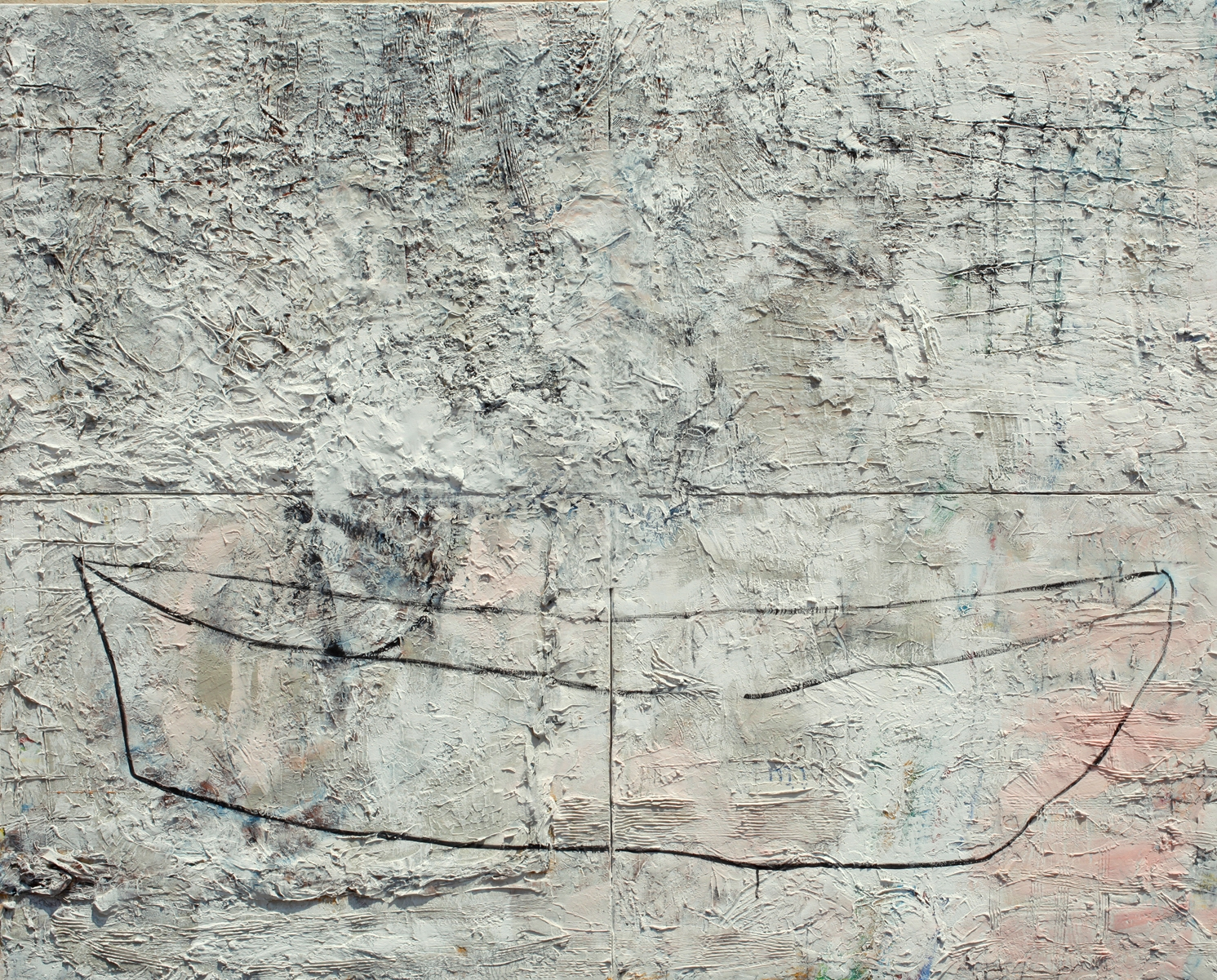 The Boat, 2011, mixed media on canvas, 180X200